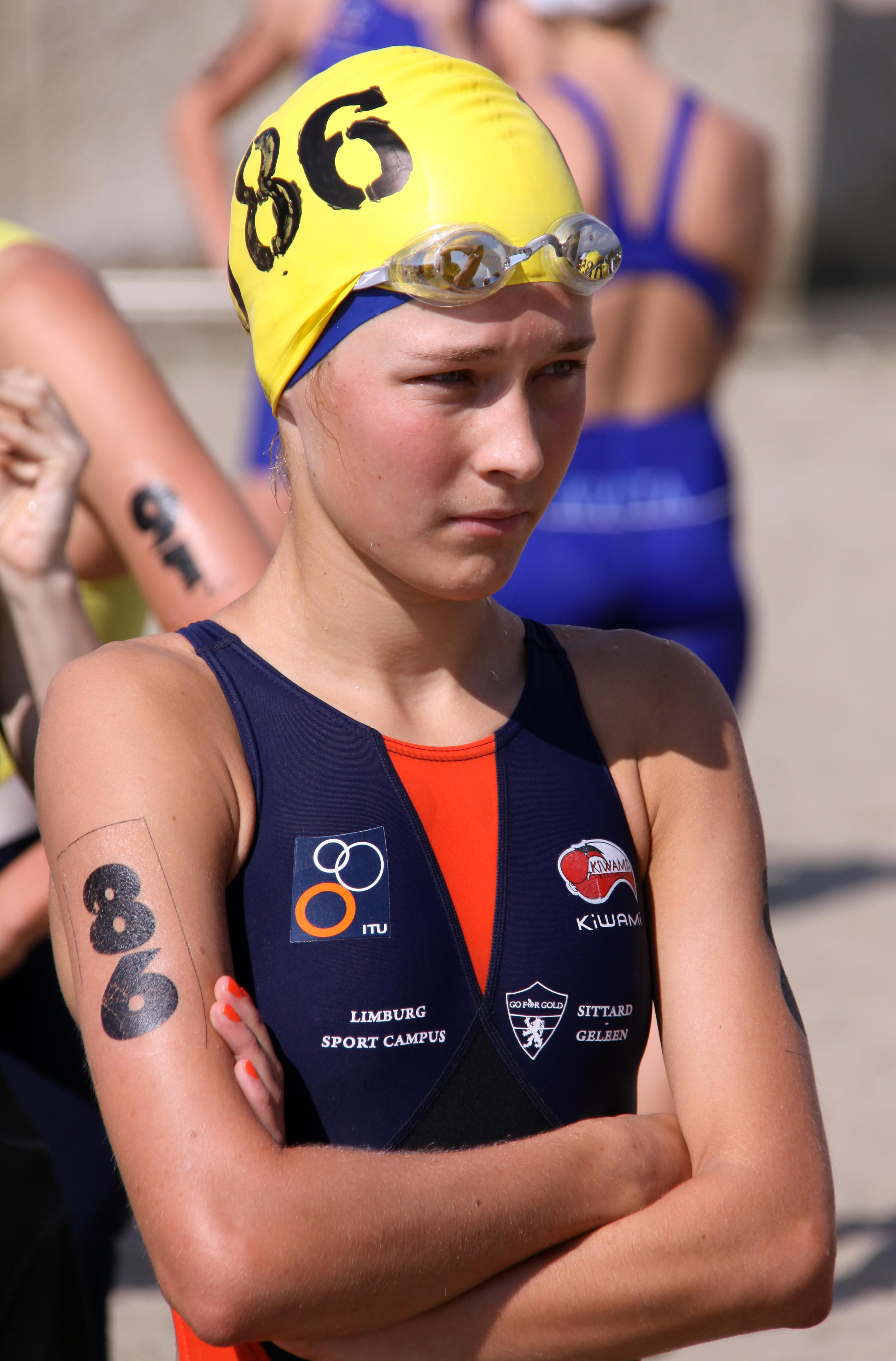 Rachel Klamer immediately before winning the gold medal at the Premium European Cup triathlon in Alanya, 2010.